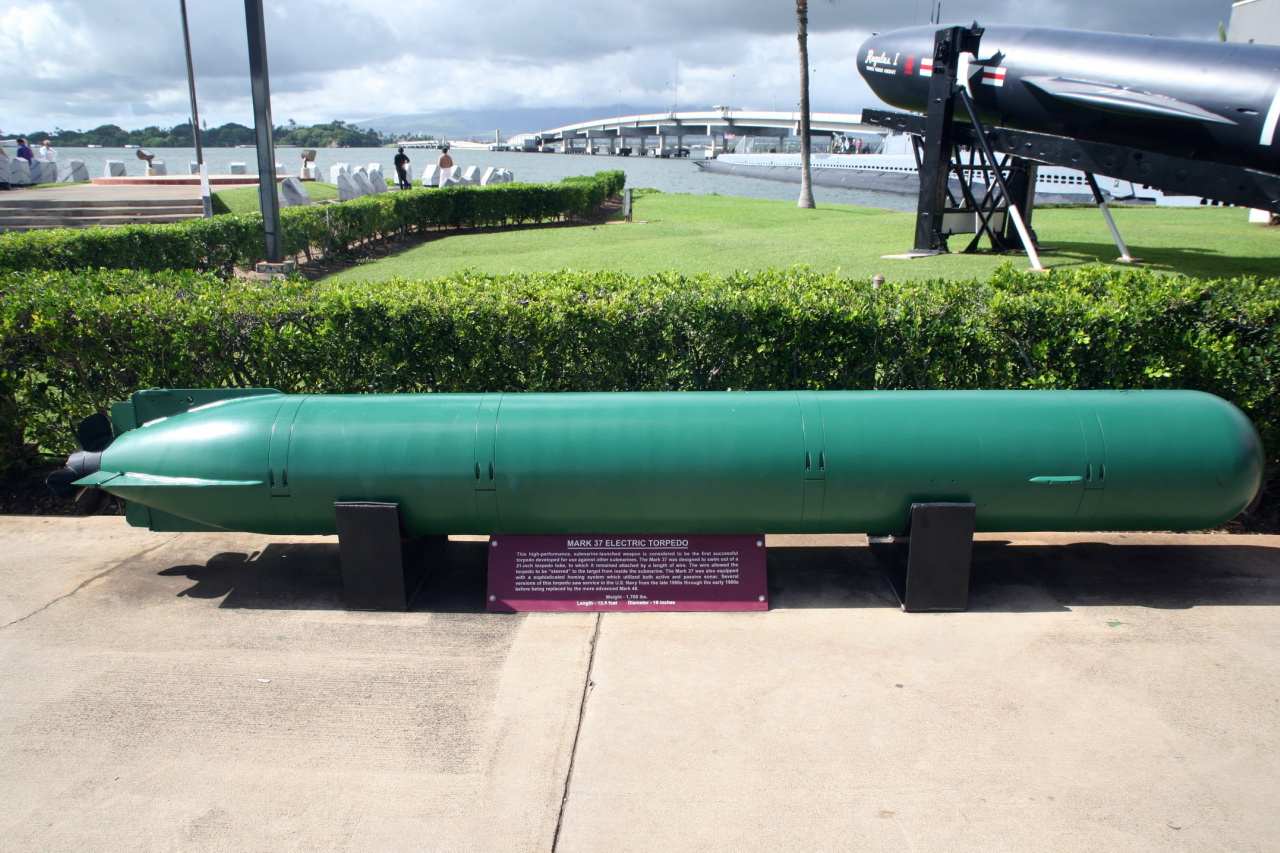 The Mark 37 torpedo is a torpedo with electrical propulsion, developed for the US Navy after World War II. See also Mark 37 torpedo